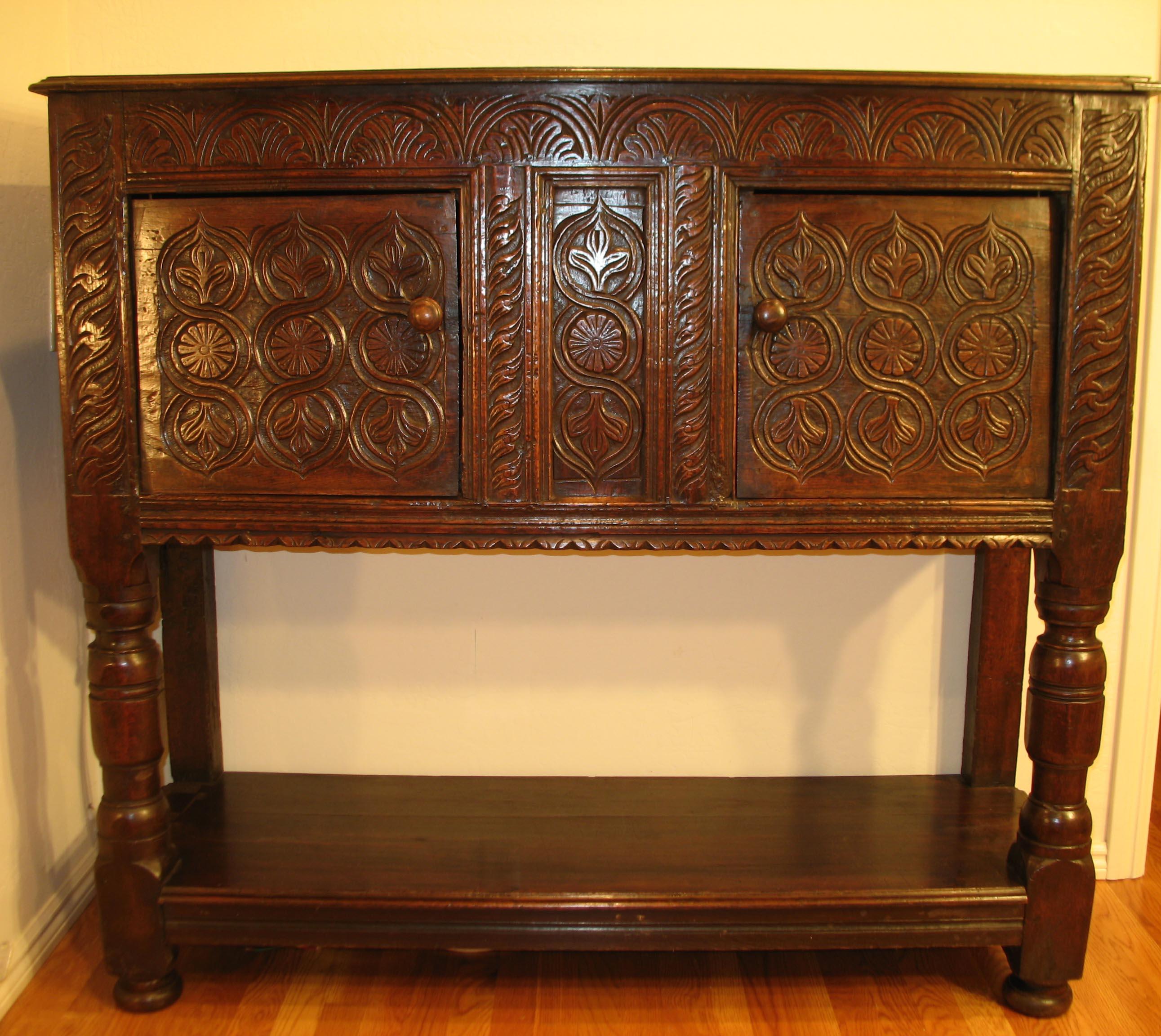 English Livery Cupboad